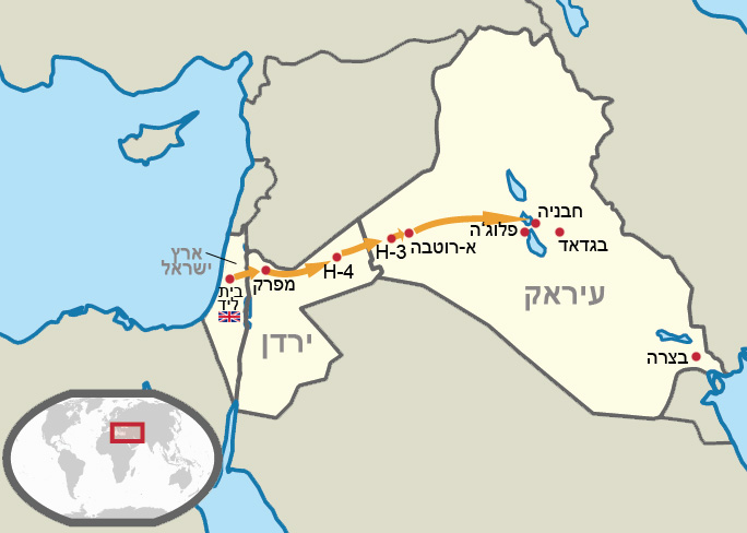 Israel to Habbaniyah Based onFile:Egypt in its region (claimed hatched).svg